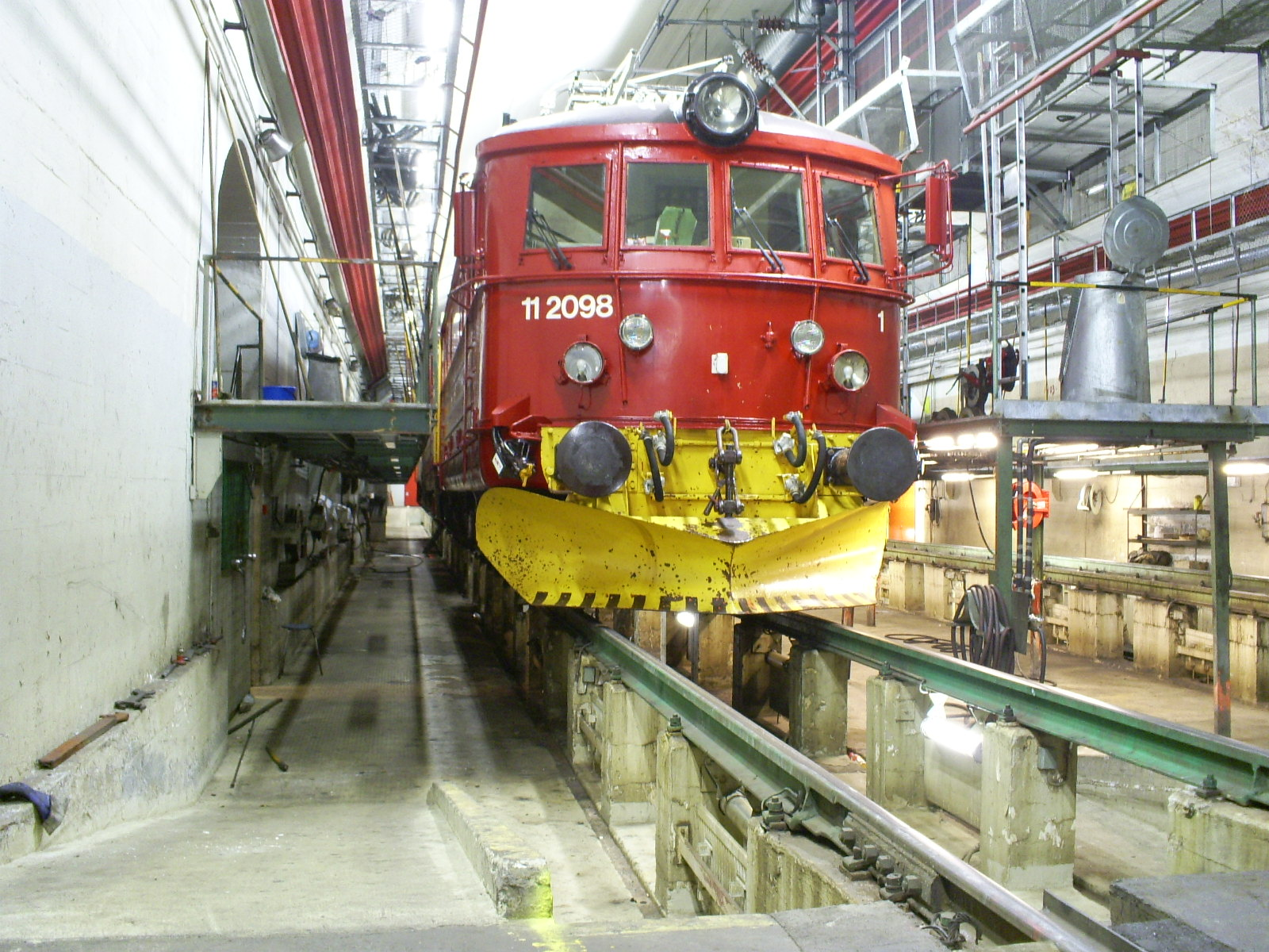 Electric locomotive type 11, number 2098